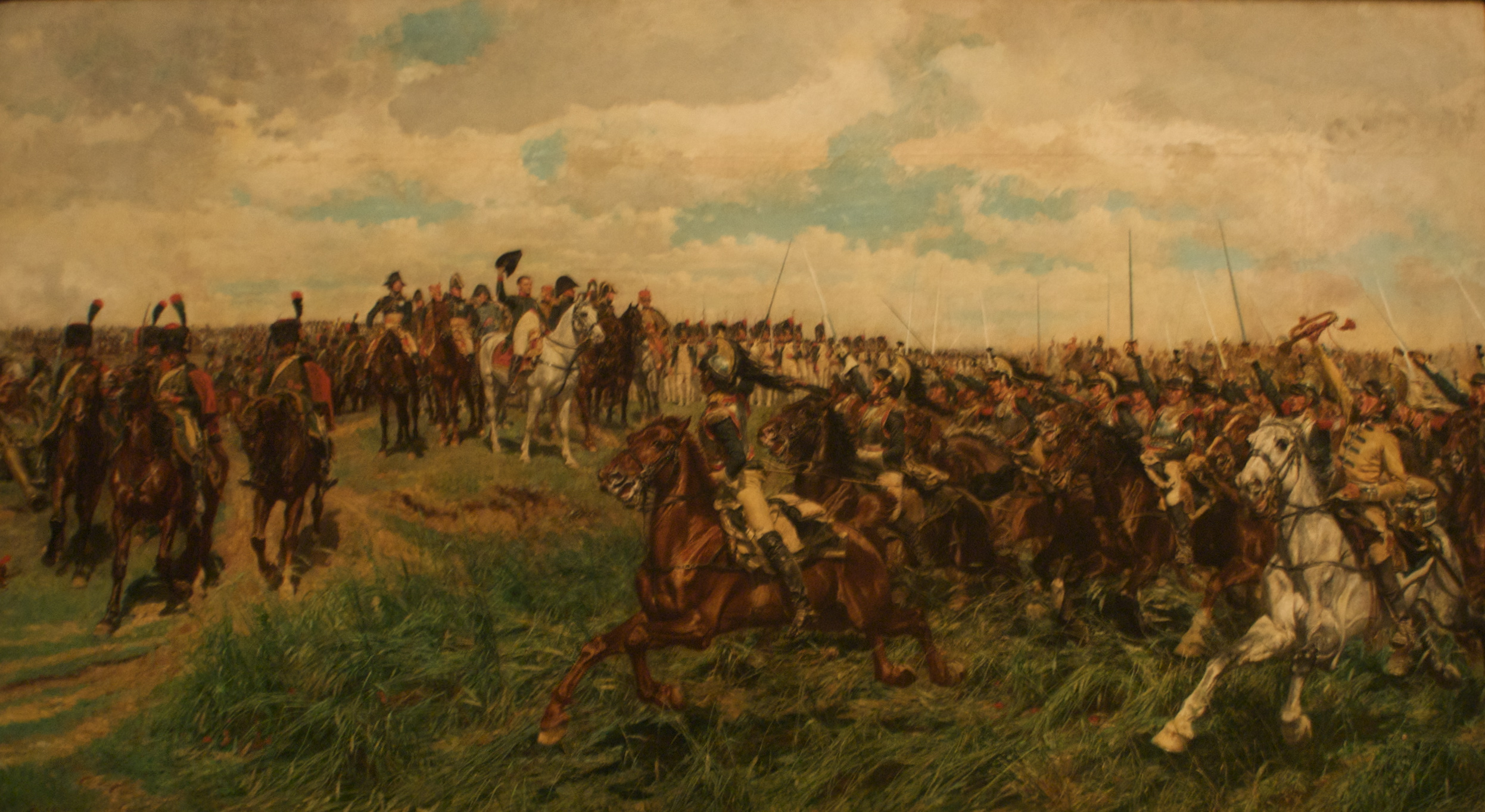 Ernest Meissonier (French, 1815–1891) 1807, Friedland, ca. 1861–75 Oil on canvas; 53 1/2 x 95 1/2 in. (135.9 x 242.6 cm) The Metropolitan Museum of Art, New York, Gift of Henry Hilton, 1887 (87.20.1) View at the Metropolitan Museum of Art website Wikipedia Loves Art at the Metropolitan Museum of Art This photo of item # 87.20.1 at the Metropolitan Museum of Art was contributed under the team name "dmadeo" as part of the Wikipedia Loves Art project in February 2009. Metropolitan Museum of Art The original photograph on Flickr was taken by dmadeo—please add a comment to the original Flickr page whenever a use has been made on Wikipedia or another project. Project galleries on Flickr: this institution, this team Ernest Meissonier (French, 1815–1891) 1807, Friedland, ca. 1861–75 Oil on canvas; 53 1/2 x 95 1/2 in. (135.9 x 242.6 cm) The Metropolitan Museum of Art, New York, Gift of Henry Hilton, 1887 (87.20.1) View at the Metropolitan Museum of Art website Wikipedia Loves Art at the Metropolitan Museum of Art This photo of item # 87.20.1 at the Metropolitan Museum of Art was contributed under the team name "dmadeo" as part of the Wikipedia Loves Art project in February 2009. Metropolitan Museum of Art The original photograph on Flickr was taken by dmadeo—please add a comment to the original Flickr page whenever a use has been made on Wikipedia or another project. Project galleries on Flickr: this institution, this team